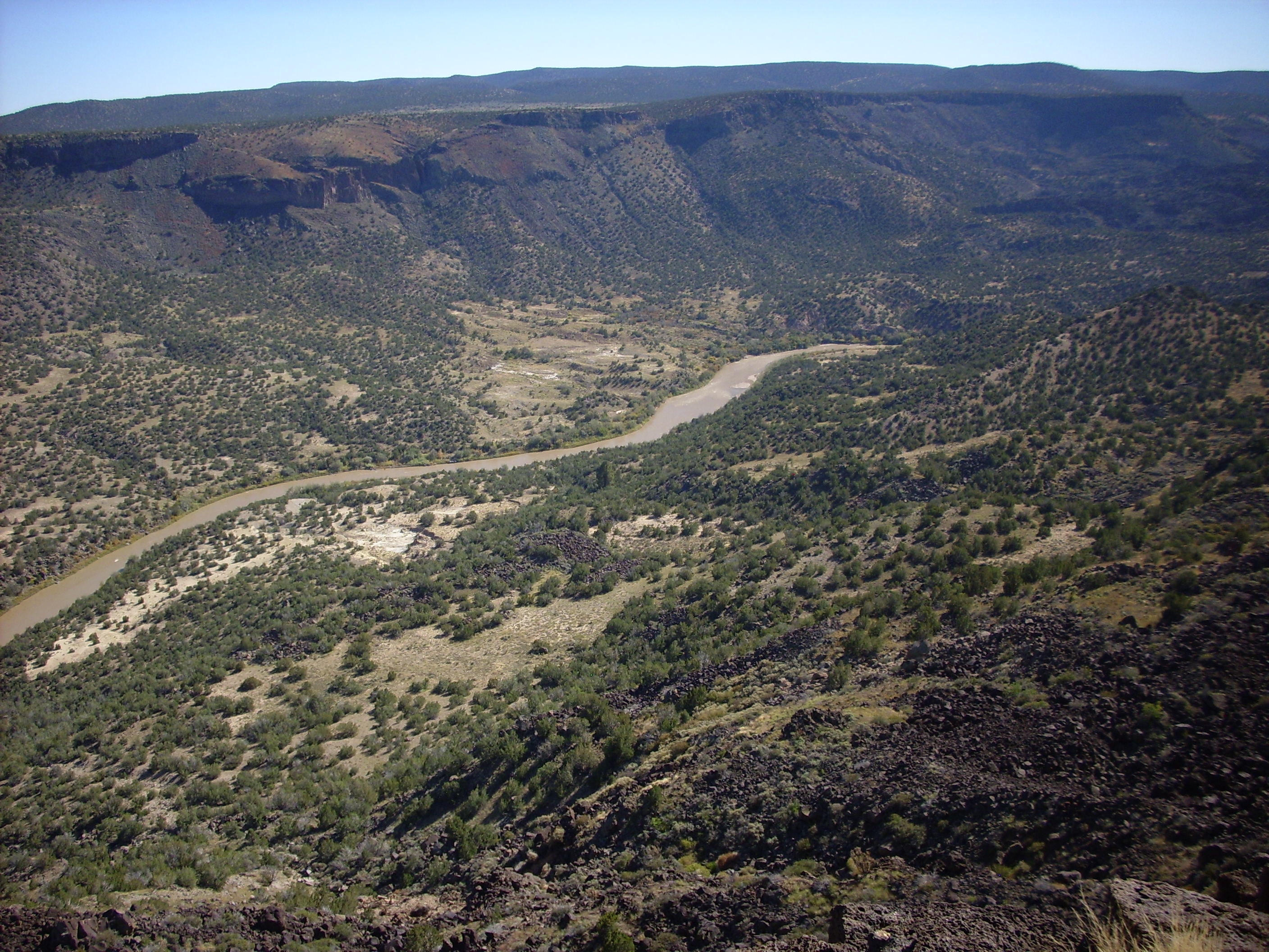 This is a view into White Rock Canyon from Overlook Park near White Rock, New Mexico. The river is the Rio Grande, which has carved through basalt of the Cerros del Rio and sediments of the Santa Fe Group to produce the canyon.